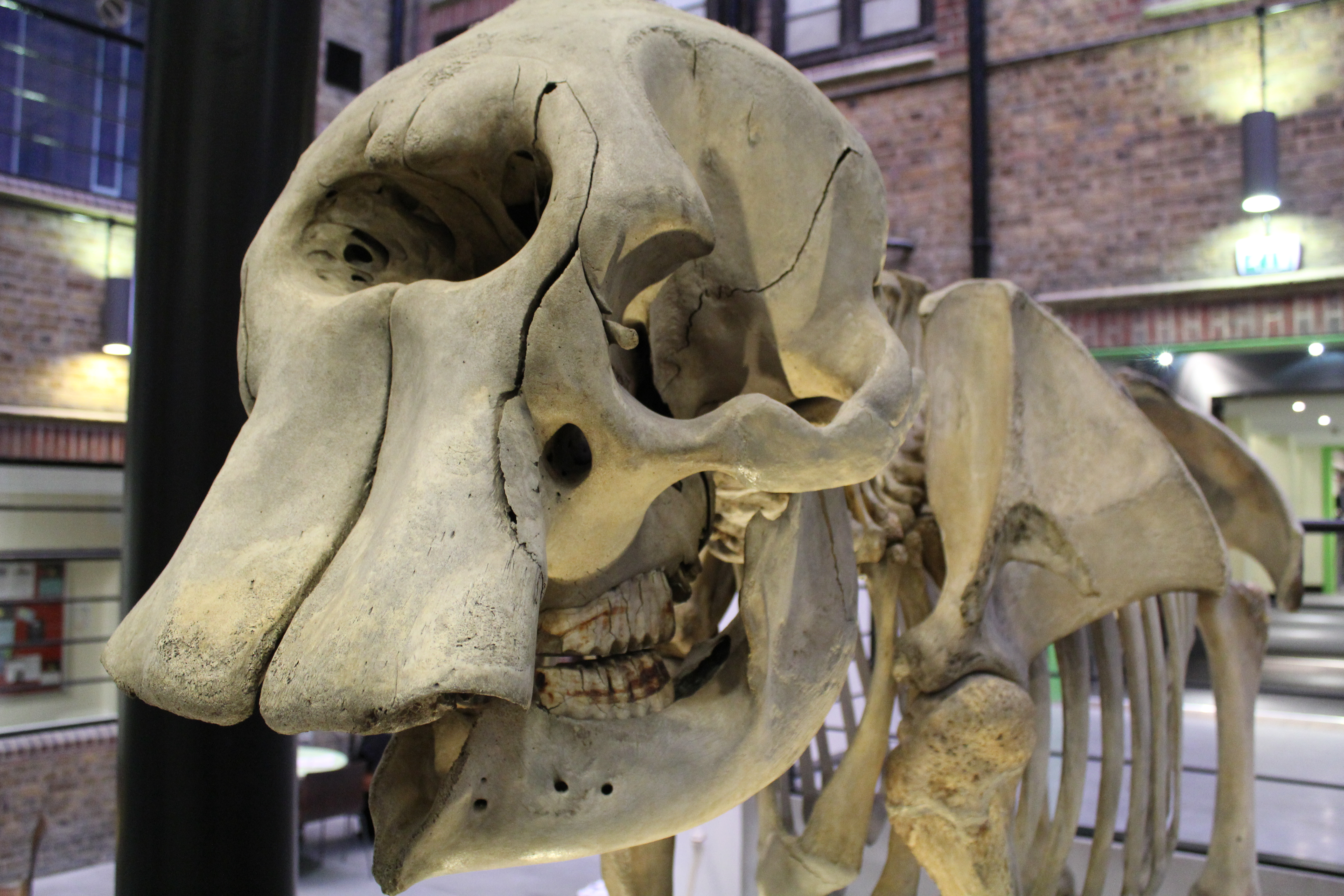 African elephant skeleton (11) at the Royal Veterinary College anatomy museum